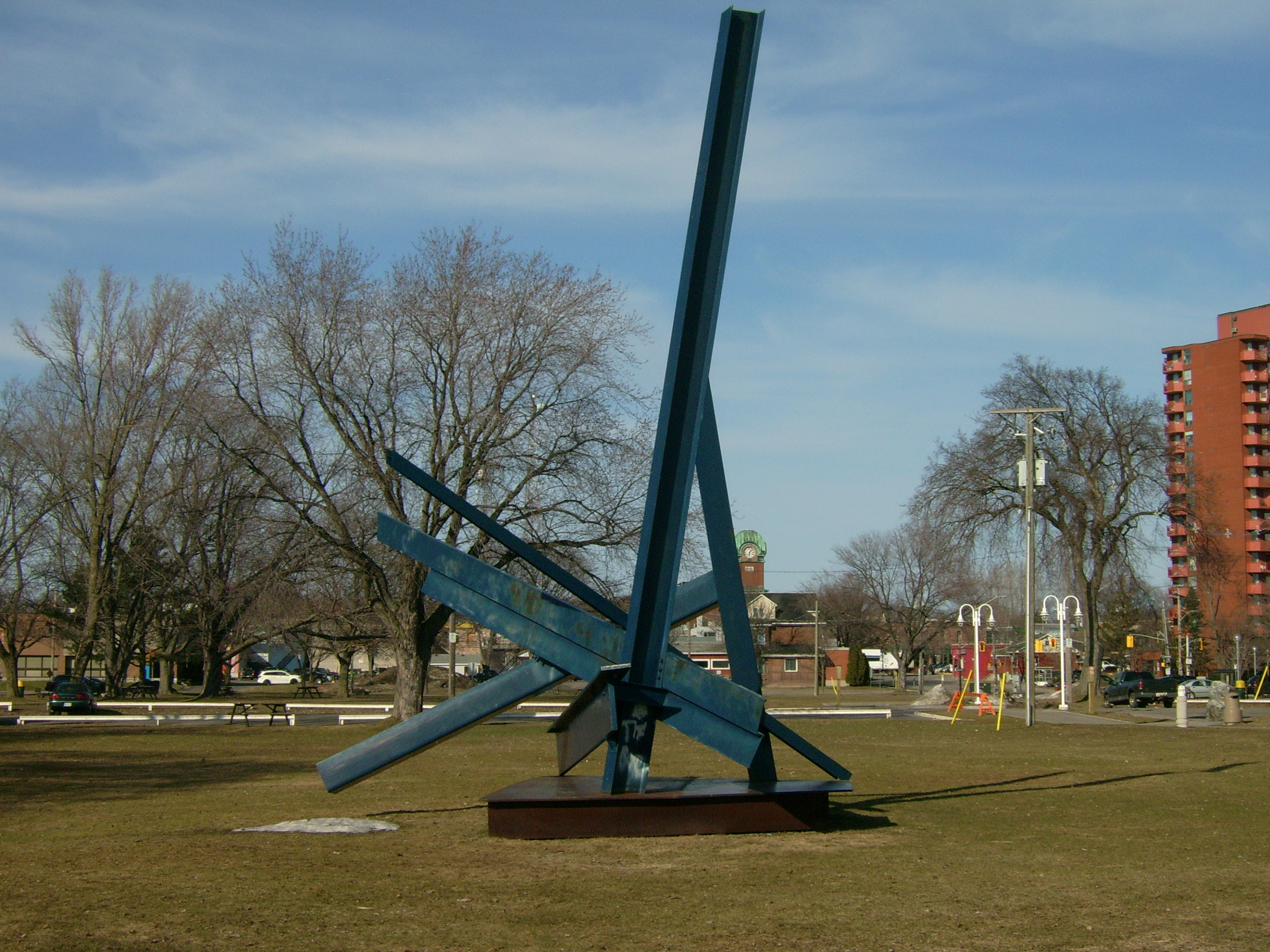 Algoma Blue by Haydn Llewellyn Davies, Art Gallery of Algoma sculpture park, Sault Ste. Marie, Ontario.